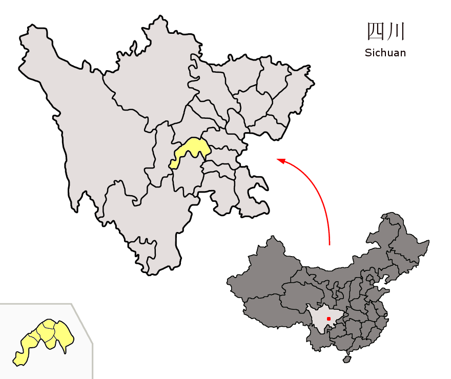 Location of Meishan Prefecture (yellow) within Sichuan province of China Map drawn in october 2007 using various sources, mainly : Sichuan province administrative regions GIS data: 1:1M, County level, 1990 Sichuan Counties map from